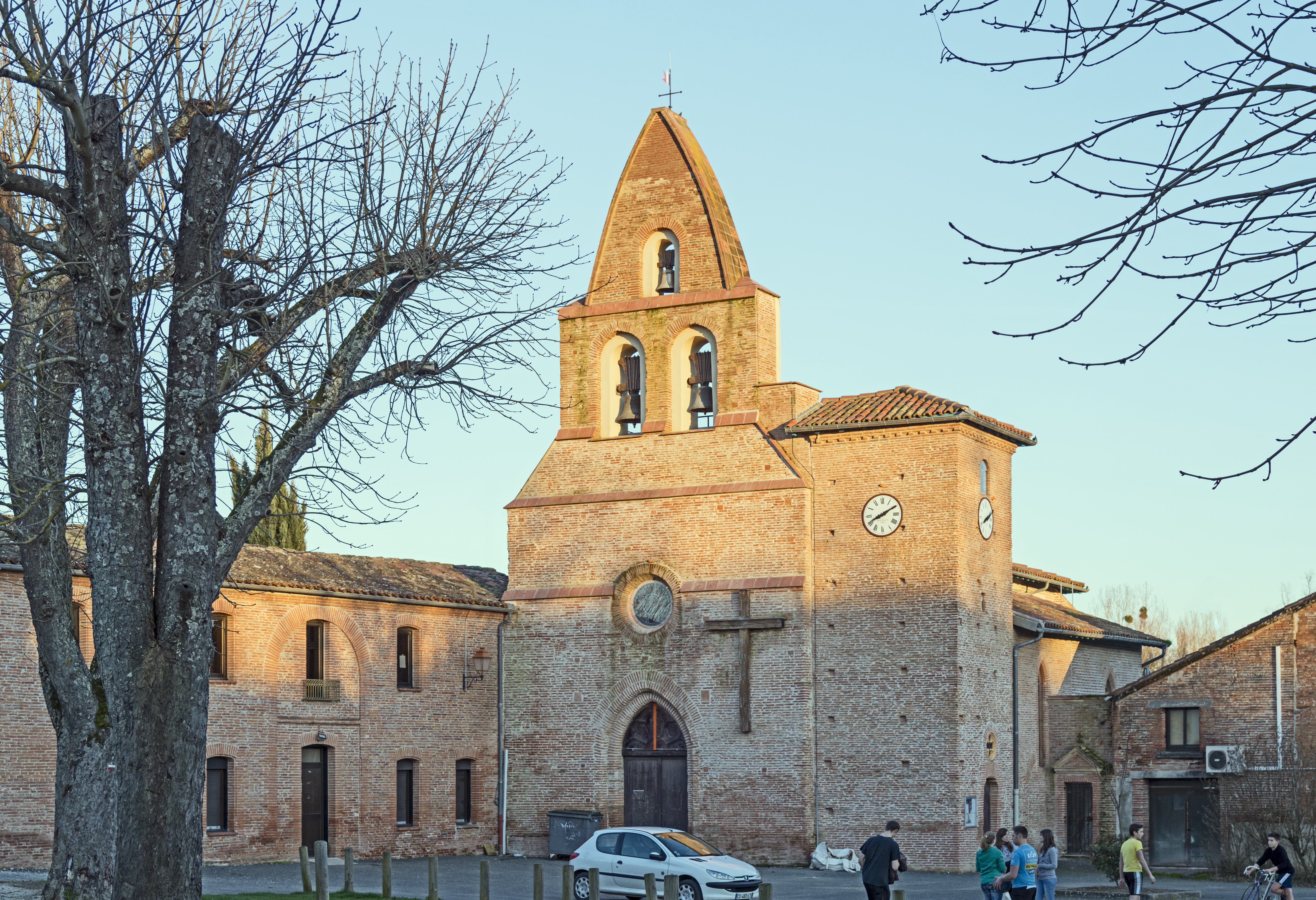 Gragnague Haute-Garonne. Church Saint-Vincent : Facade.